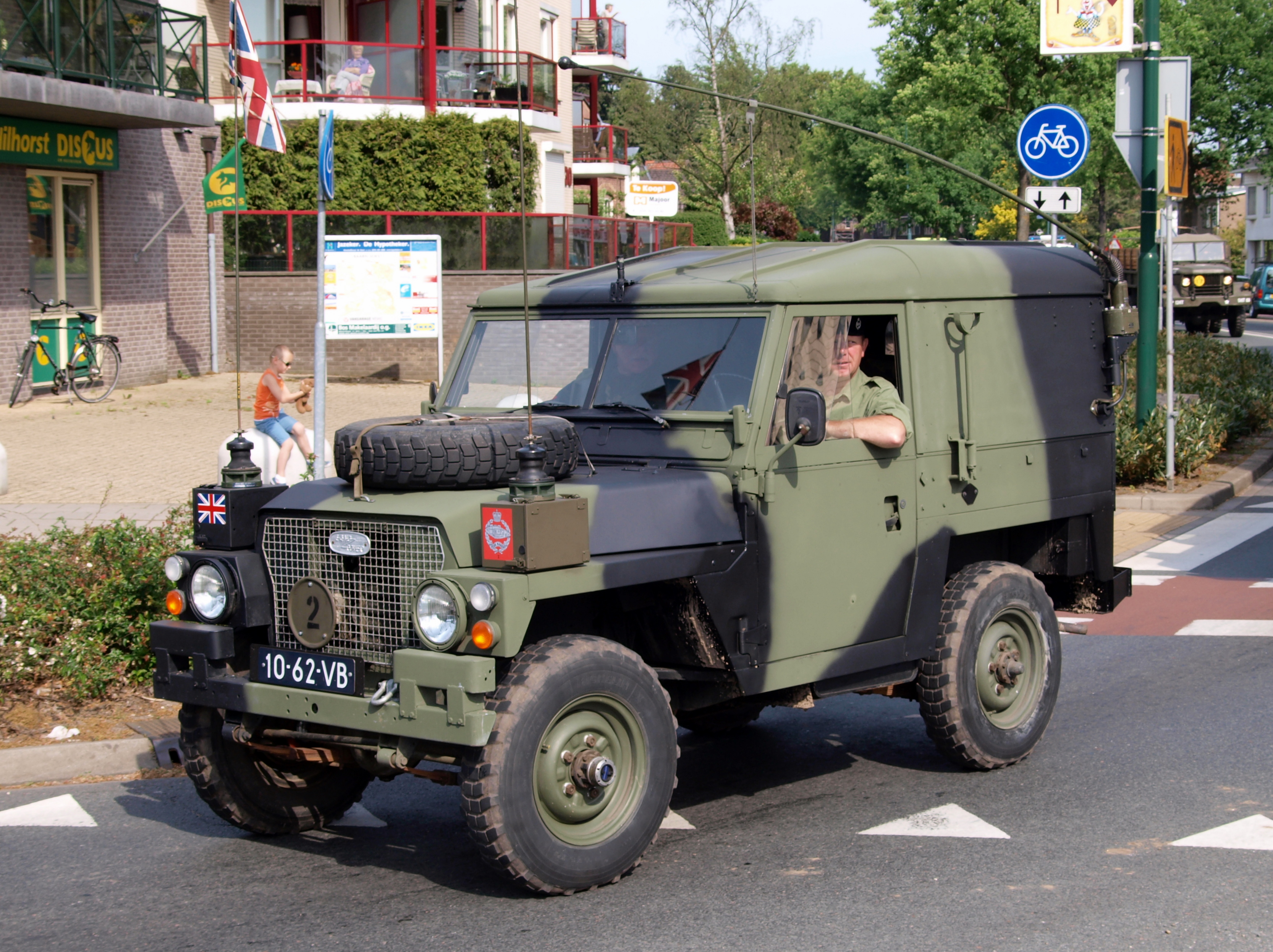 English army Land Rover, Bridgehead 2011